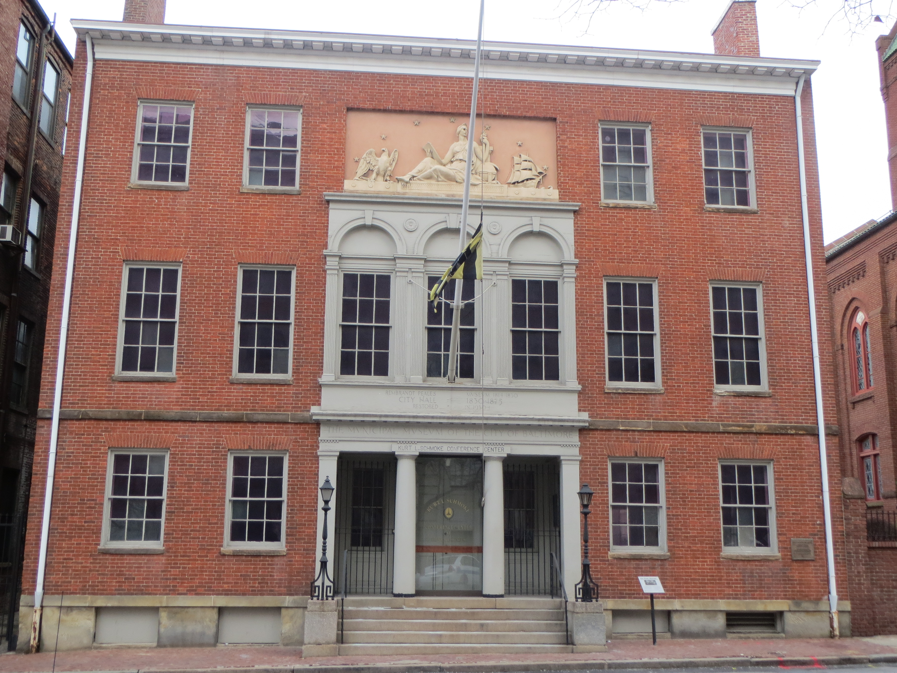 An image of the Peale Museum. It was created in 1814 by Charles Wilson Peale and Rembrandt Peale. It was the first building designed as a museum in the United States. This site was selected for Endangered Maryland in 2011.